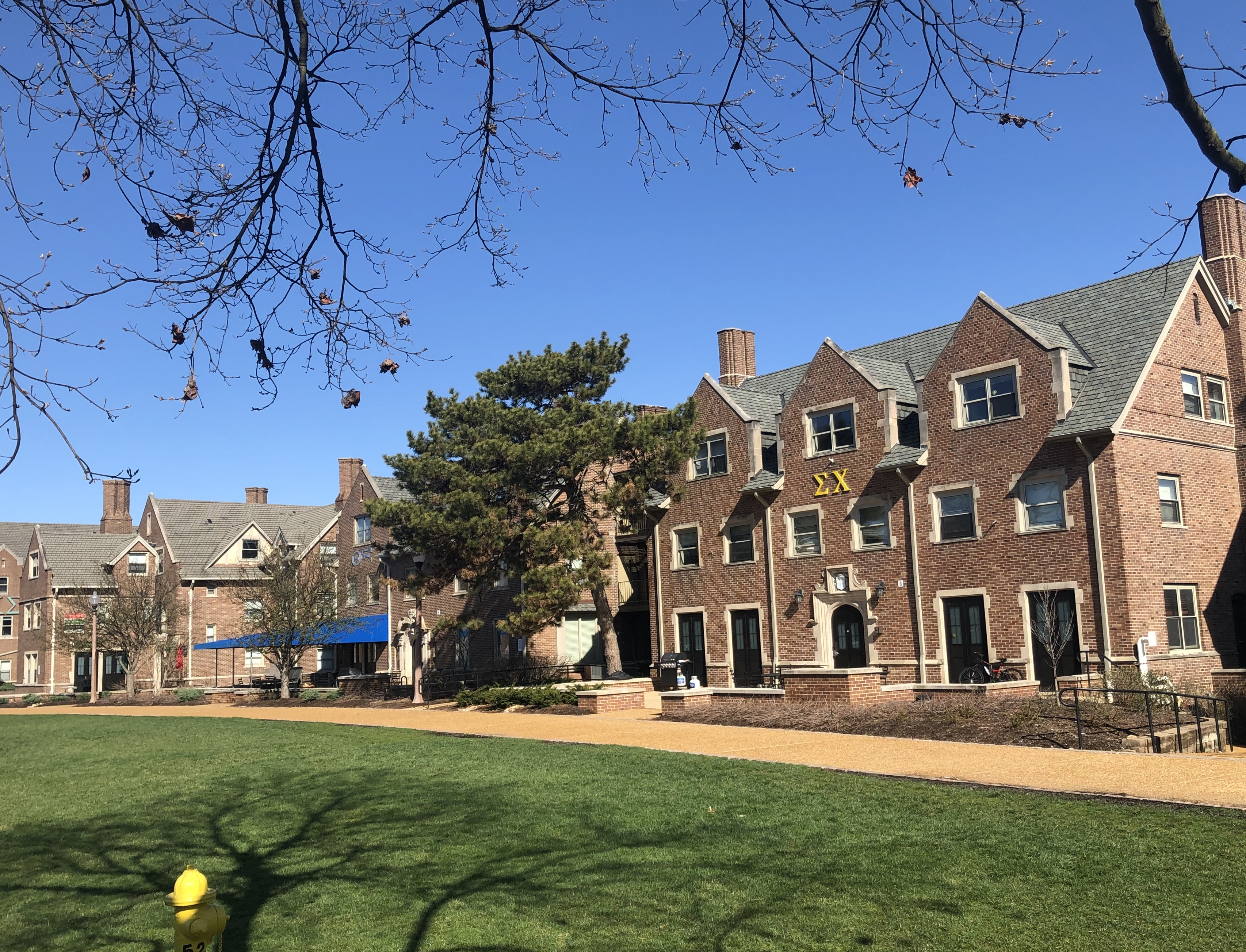 Washington University in St. Louis Fraternities